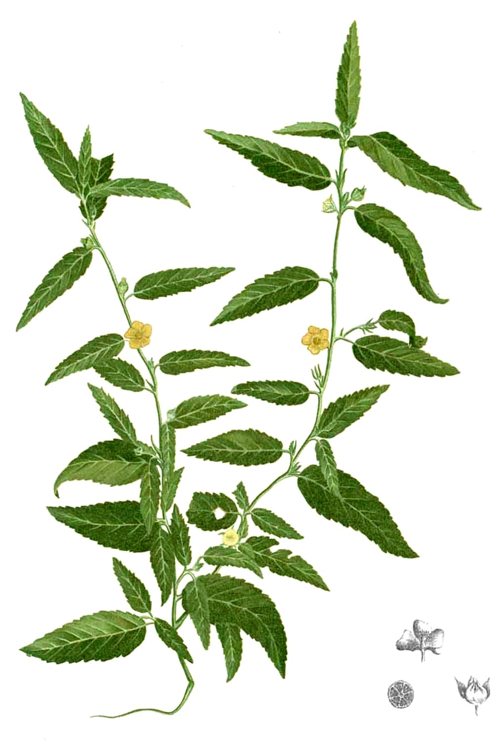 Plate from book